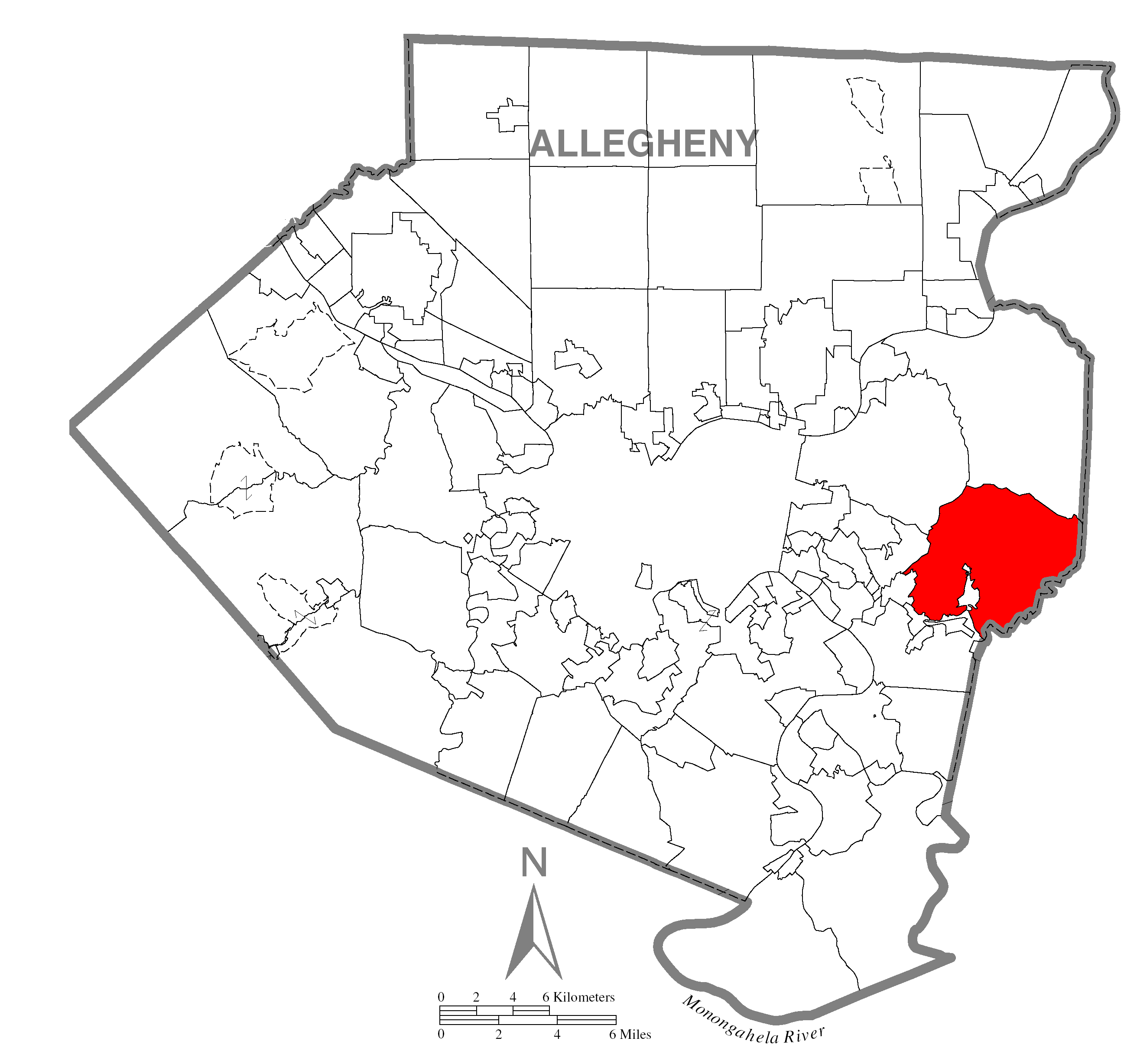 A map of Allegheny County showing Municipality of Monroeville, Pennsylvania (alternate) highlighted on the map.